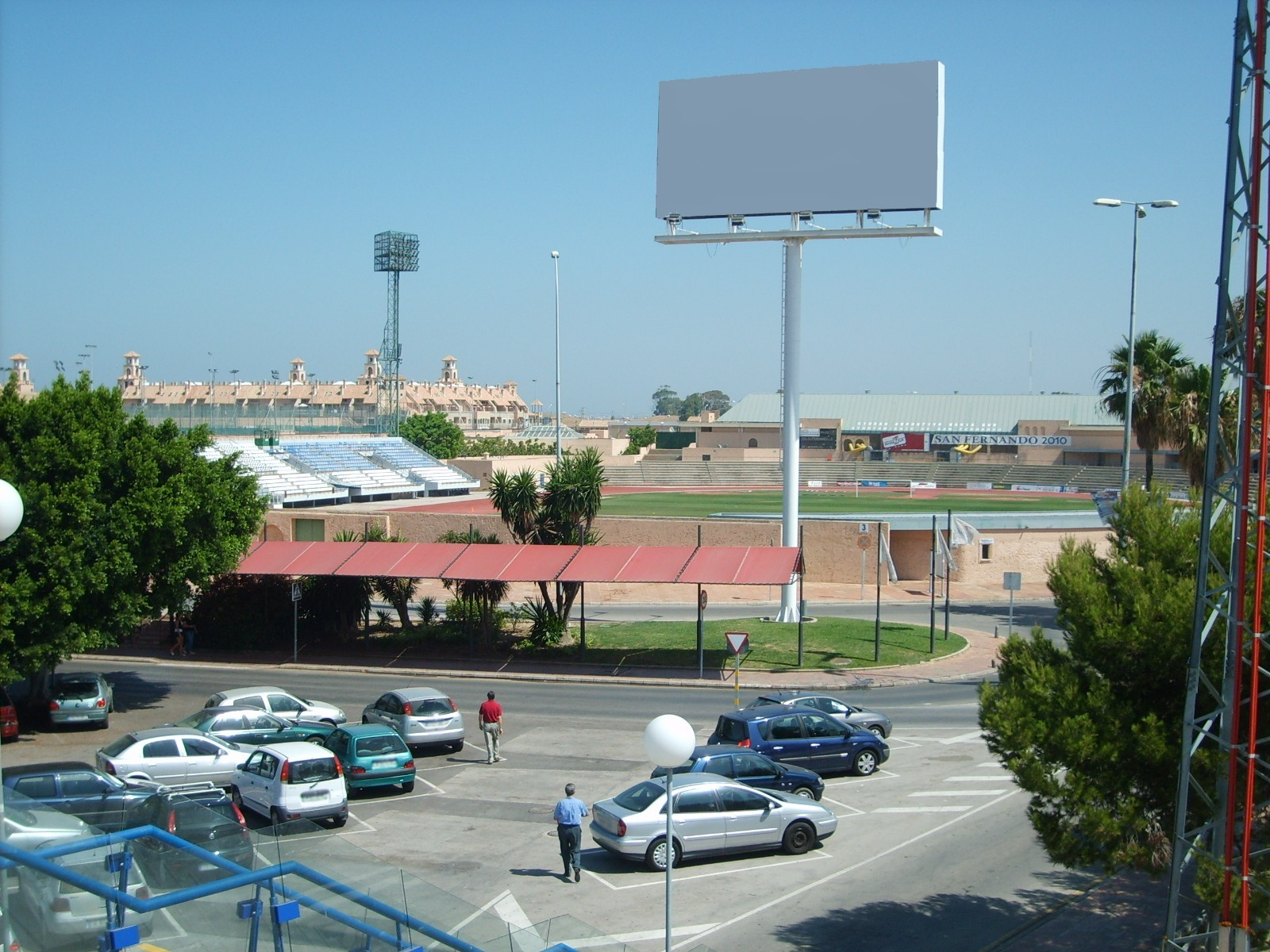 "Bahía Sur" soccer stadium, from Club Deportivo San Fernando, which plays in Spanish Soccer League.